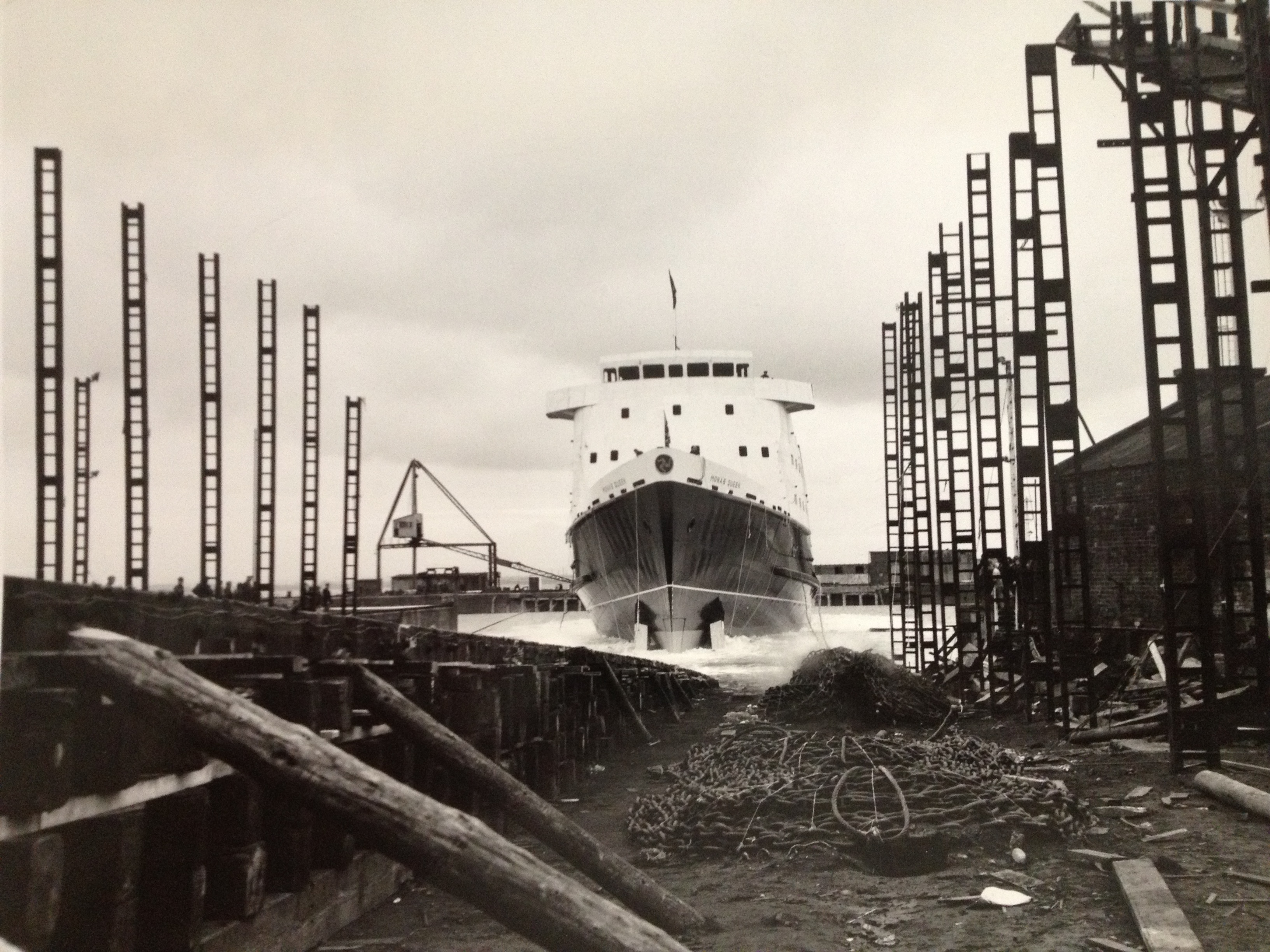 Mona's Queen is launched at the Ailsa's Troon yard.